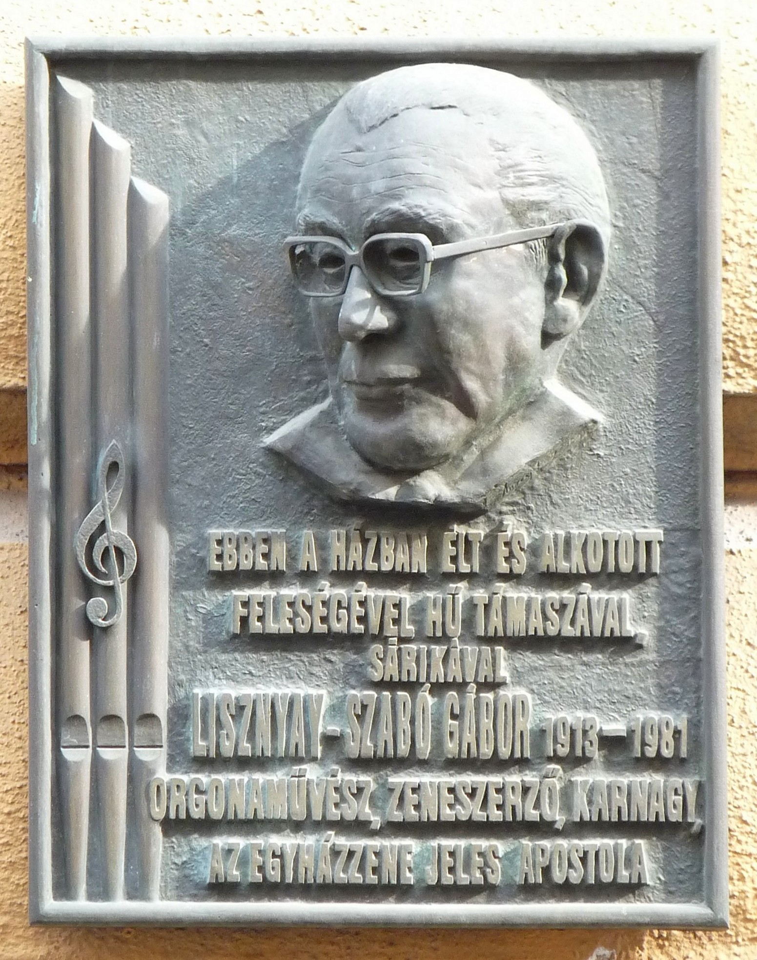 Commemorative plaque to Mr. Gábor Lisznyay-Szabó (1913–1981) Hungarian composer, organist and choir leader. It is affixed to the wall of his former home. The author of the bronz relief is Mr. György Ugray Jr. (1998). (Budapest, District VI, Szív Street Nr 33)